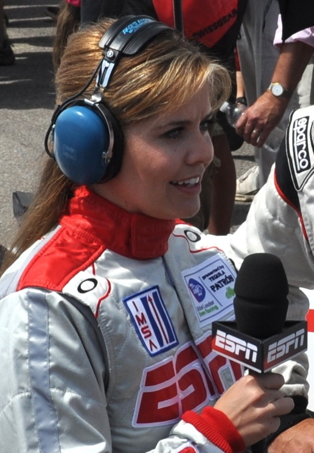 Grandprix of Mosport 2011